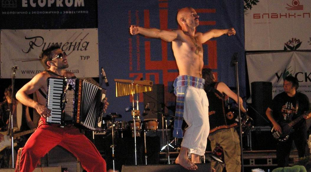 Hurt "Haydamaky" in festyval Sheshory-2005